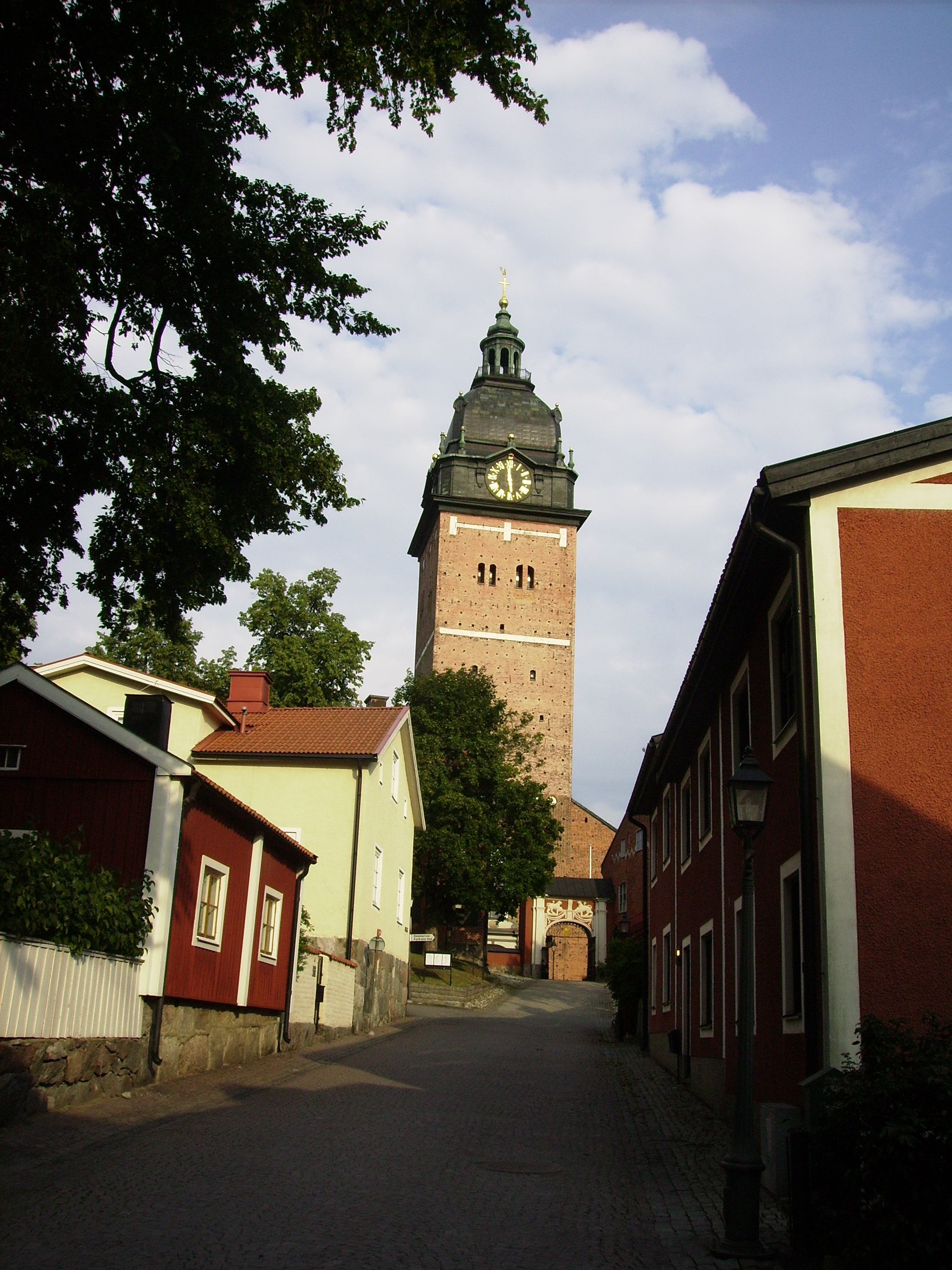 Picture of Gyllenhjelmsgatan in Strängnäs, Sweden